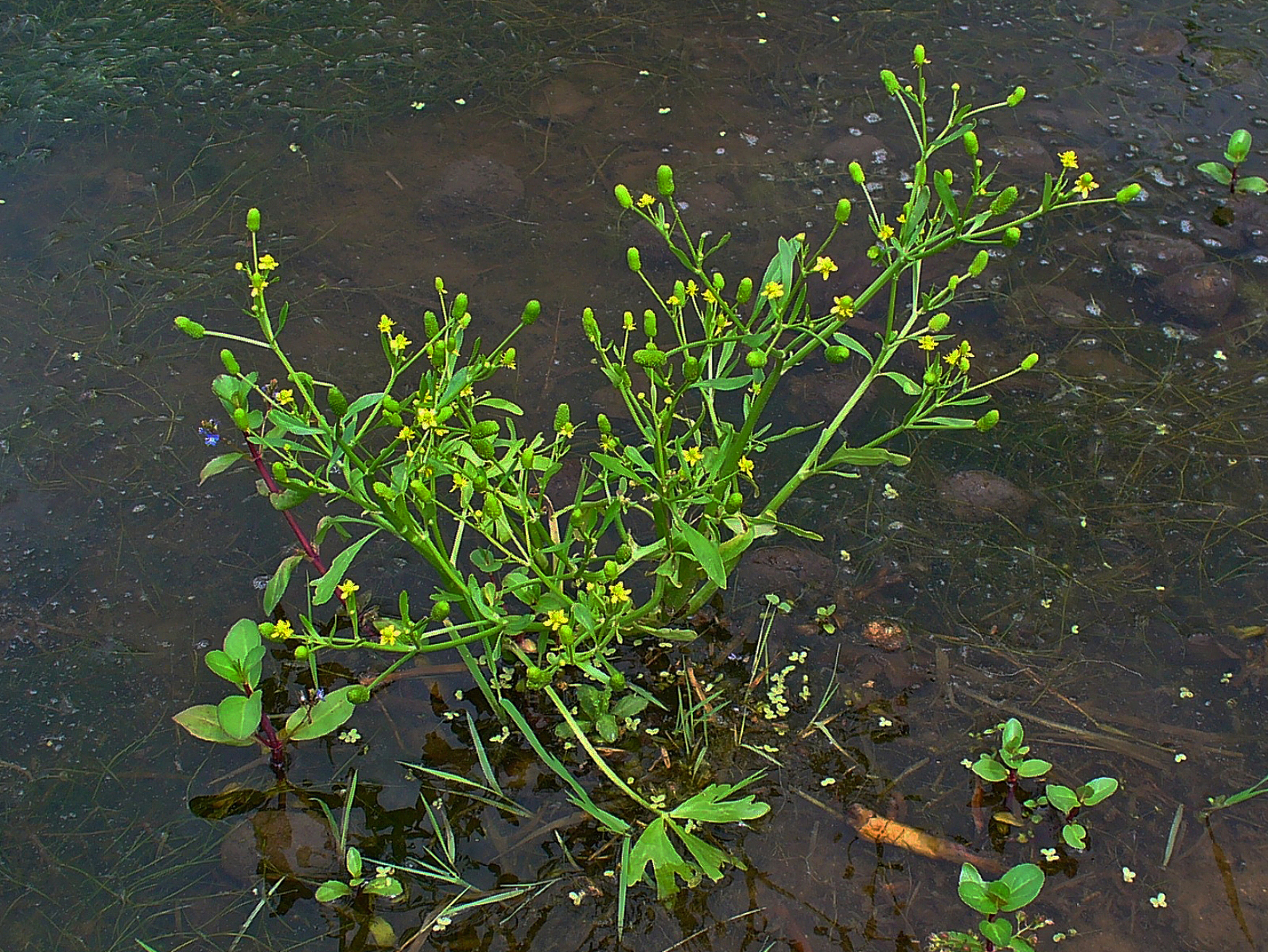 Ranunculus sceleratus, Ranunculaceae, Cursed Buttercup, Celery-leaved Buttercup, habitus.